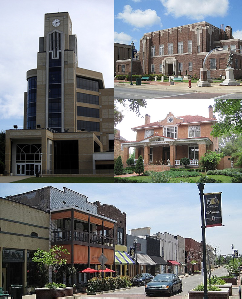 Collage of Jonesboro, AR